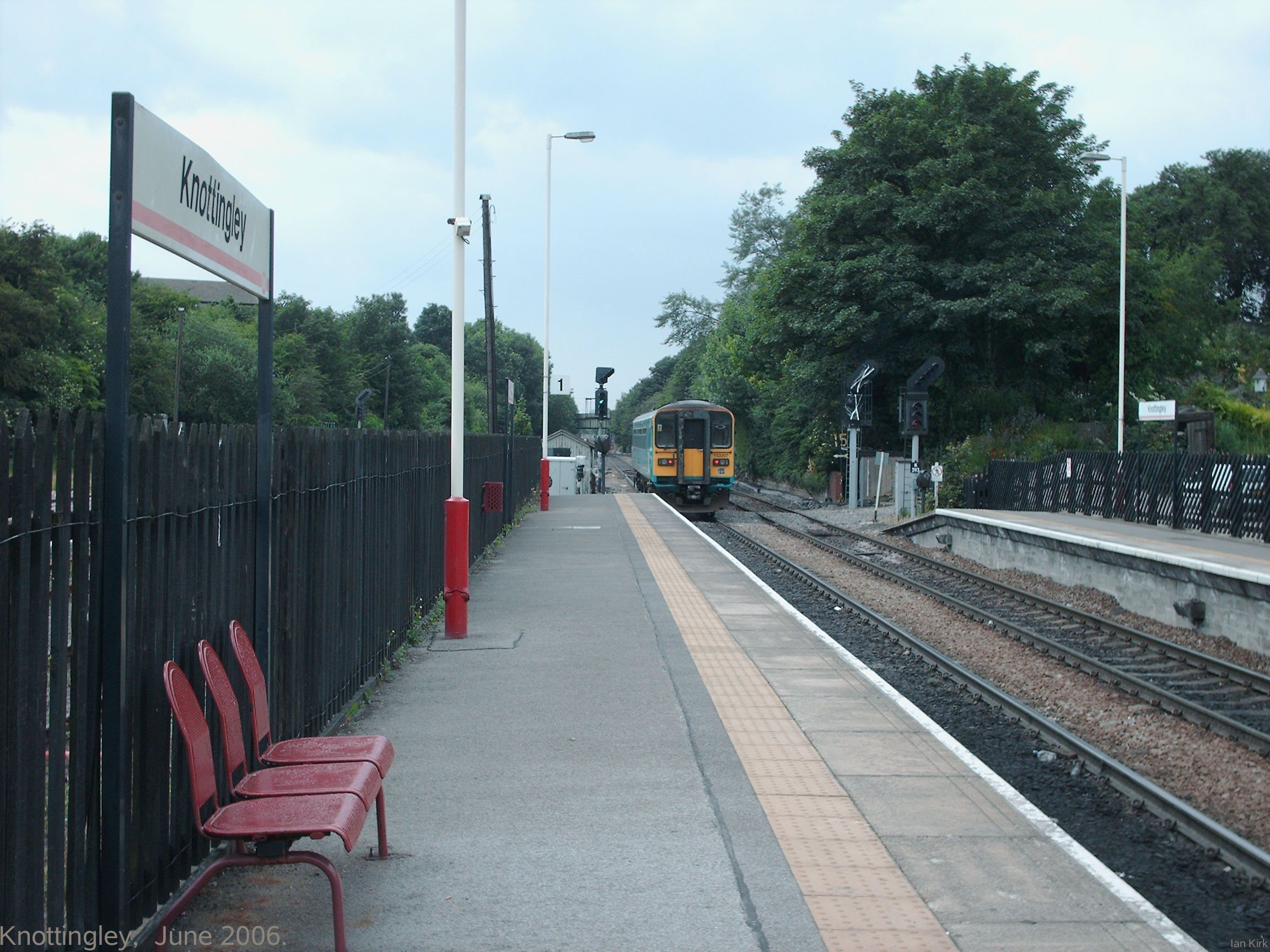 Knottingley railway station, West Yorkshire, England. Platform 1.